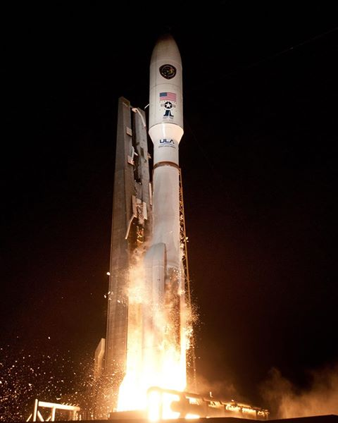 A United Launch Alliance (ULA) Atlas V rocket carrying the third Advanced Extremely High Frequency (AEHF-3) satellite for the United States Air Force lifted off from Space Launch Complex-41 here at 4:10 a.m. EDT today. The AEHF constellation is a joint-service satellite communications system that will provide survivable, global, secure, protected and jam-resistant communications for high-priority military ground, sea and air assets.